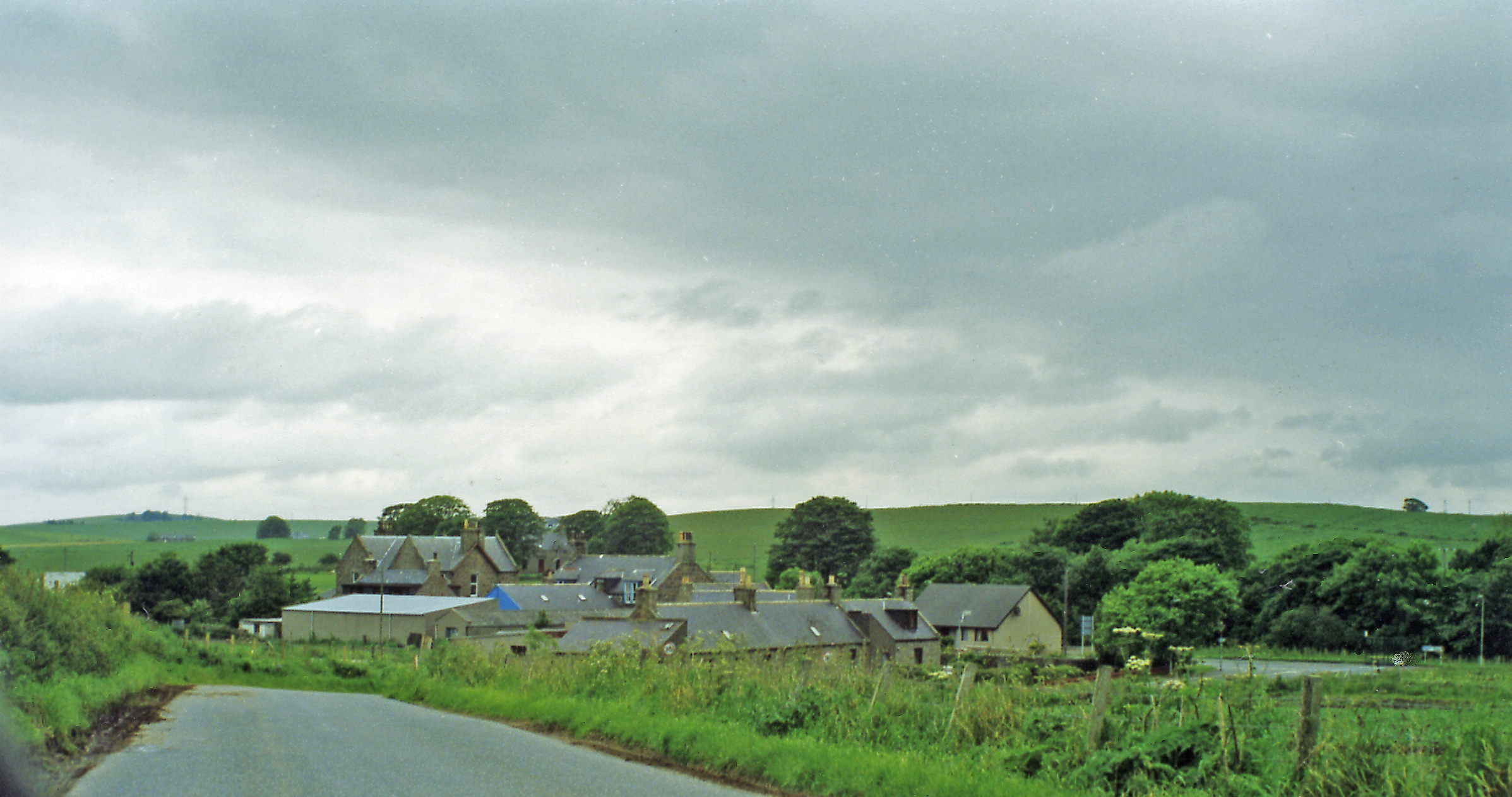 Northward on A947 road to site of Auchterless station at Mains of Towie. The station was on the ex-GNSR branch from Inveramsay - Macduff off the Aberdeen - Elgin main line. The station here and line were closed to passengers from 1/10/51; the line was closed to goods Turriff - Macduff from 1/8/61, Inveramsay - Turriff (through Auchterless) from 3/1/66.